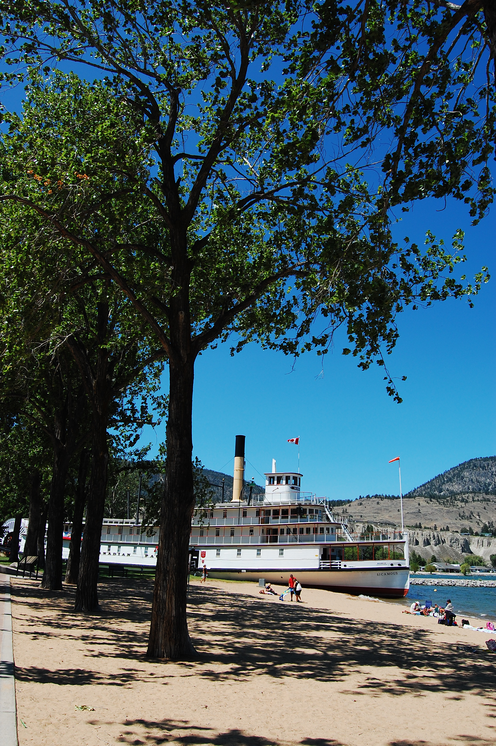 Sicamous on Penticton Beach, summer 2009.